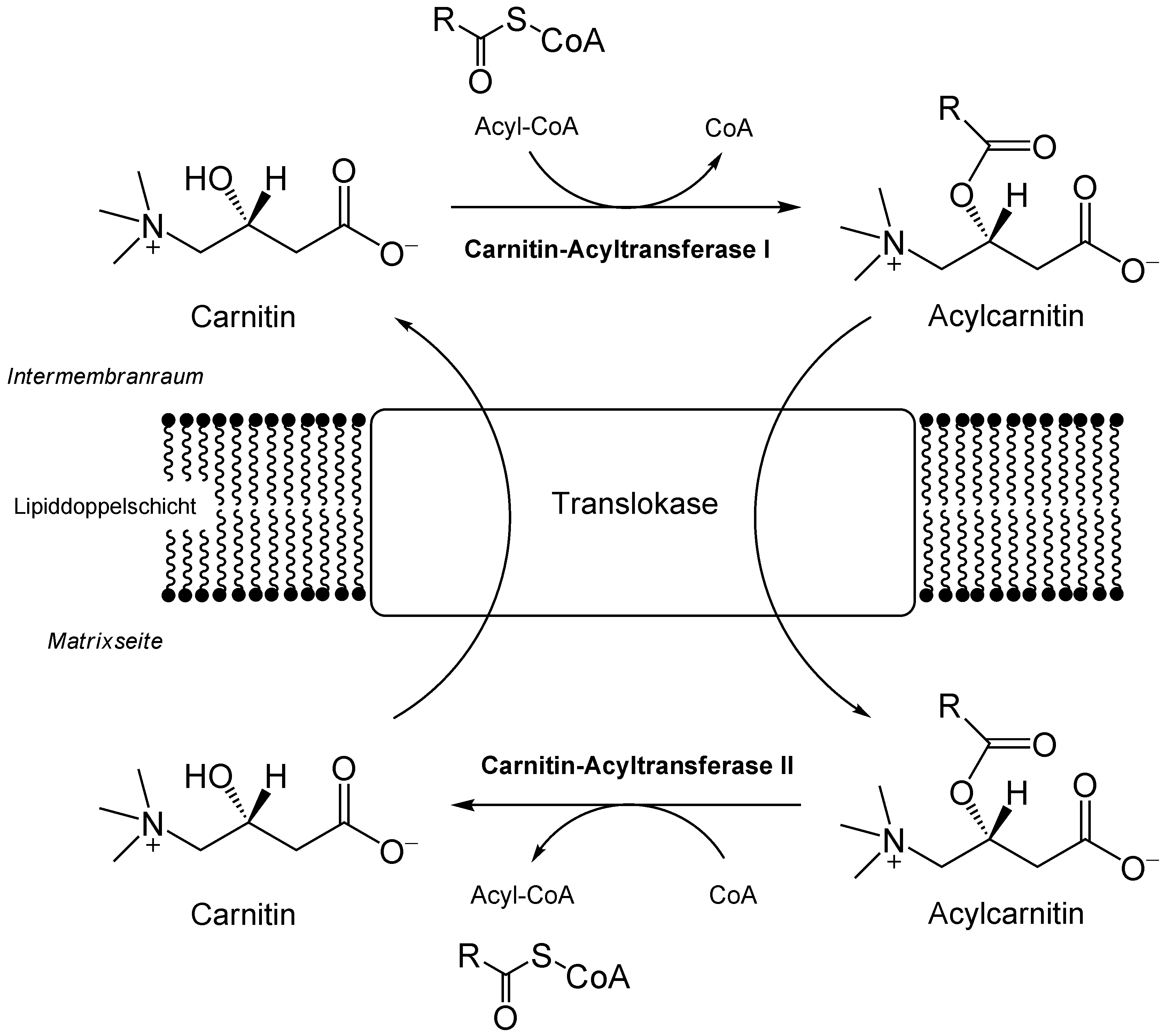 Carnitinshuttle; Transfer von Acyl-CoA in die Matrix